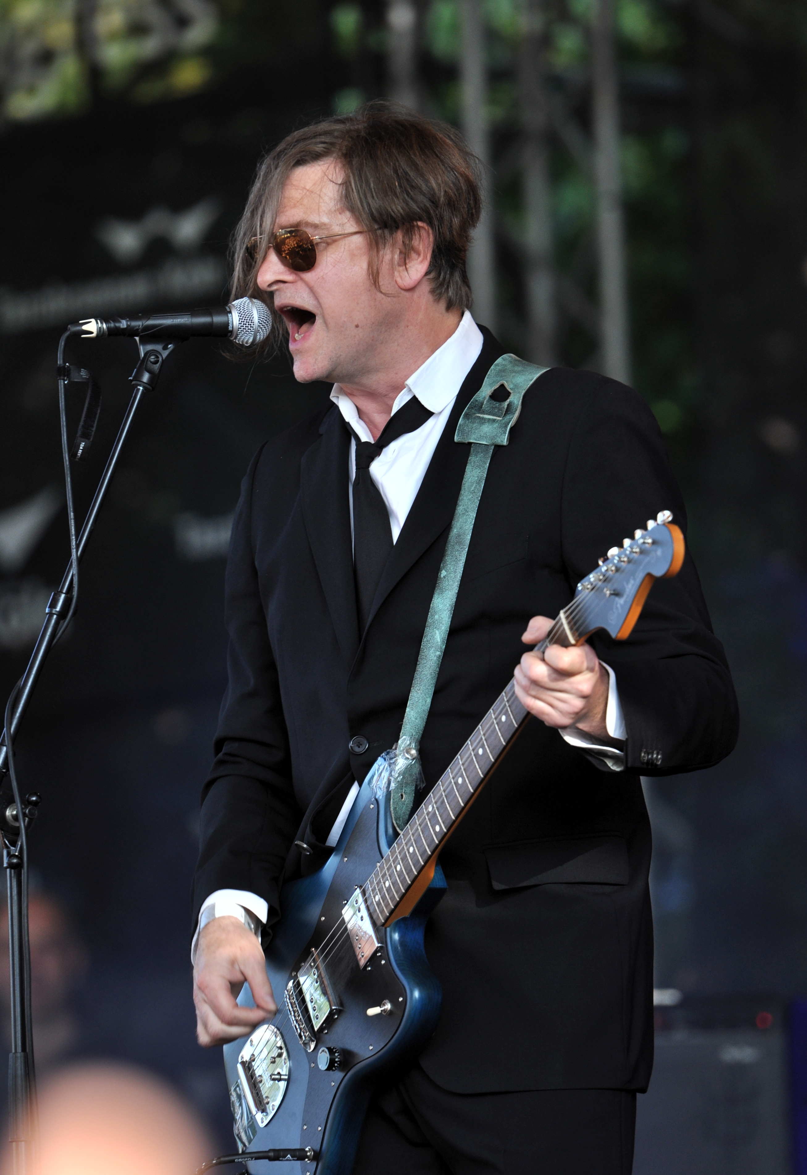 Phillip Boa with Phillip Boa & the Voodooclub at the Amphi Festival 2013, Cologne, Germany